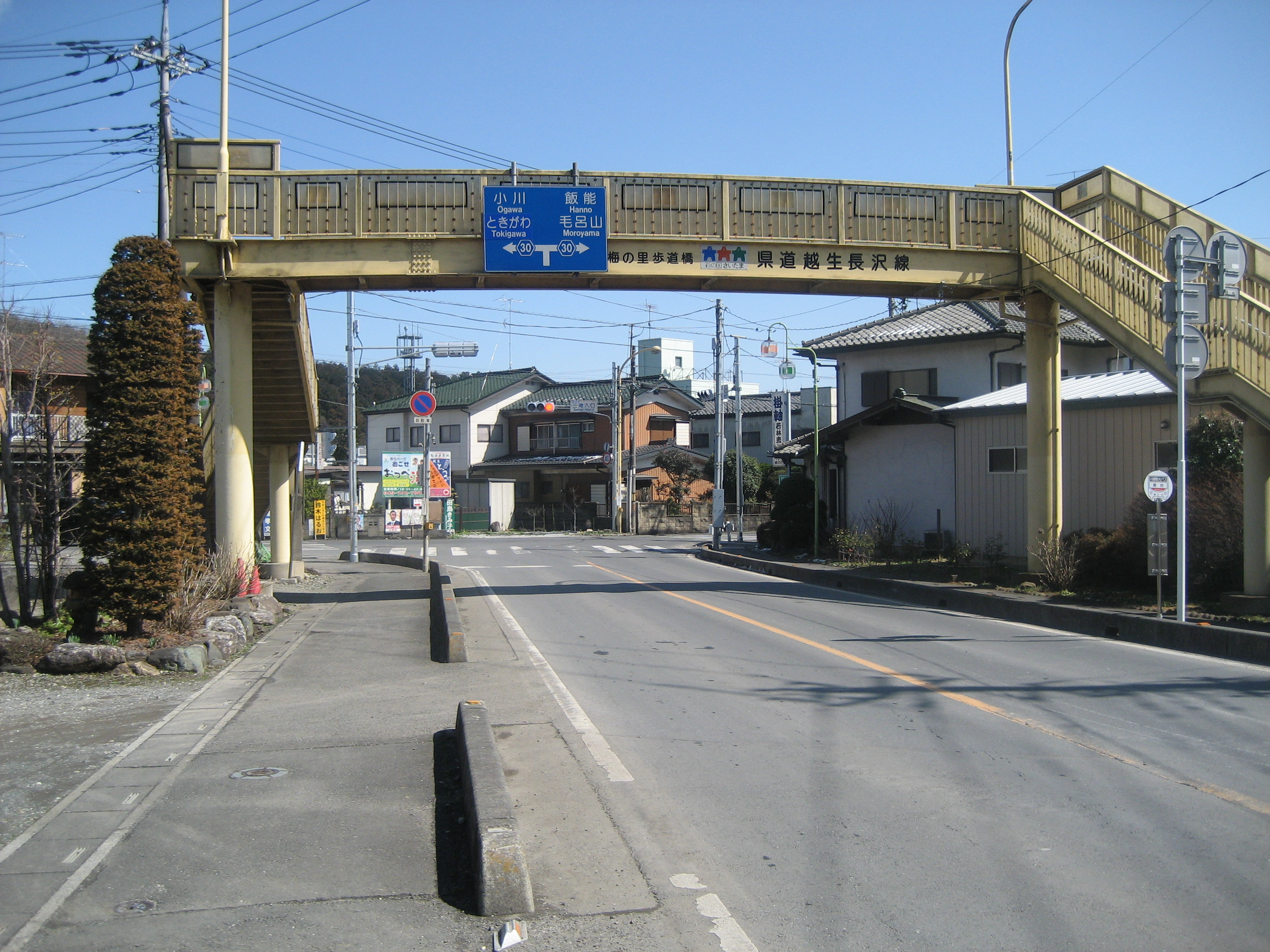 The Saitama Prefectural Road Route 61 at the Santaki-iriguchi Intersection in Ogose Town